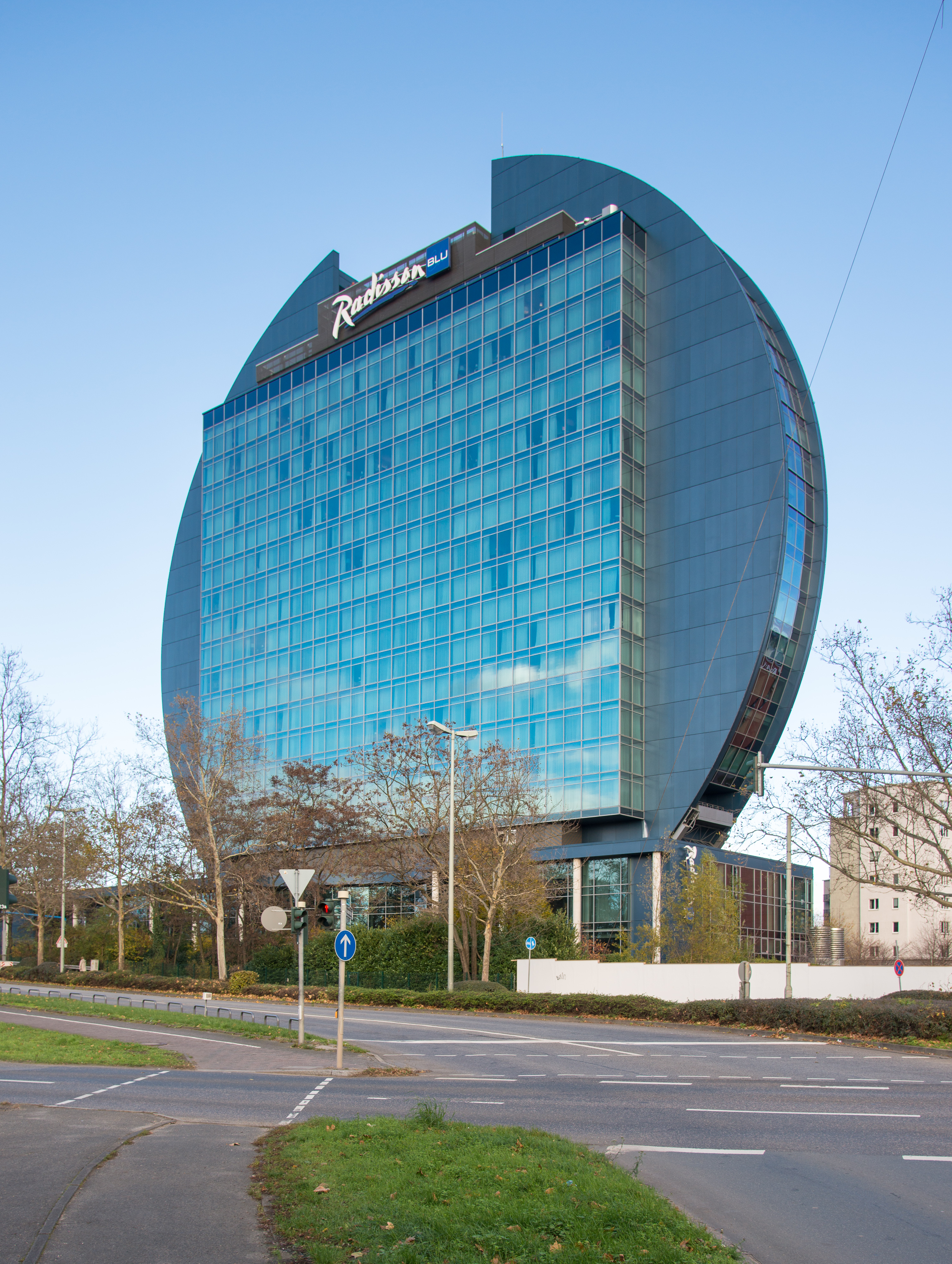 Frankfurt am Main, Radisson Blu Hotel (former Blue Heaven) tower as seen from South.